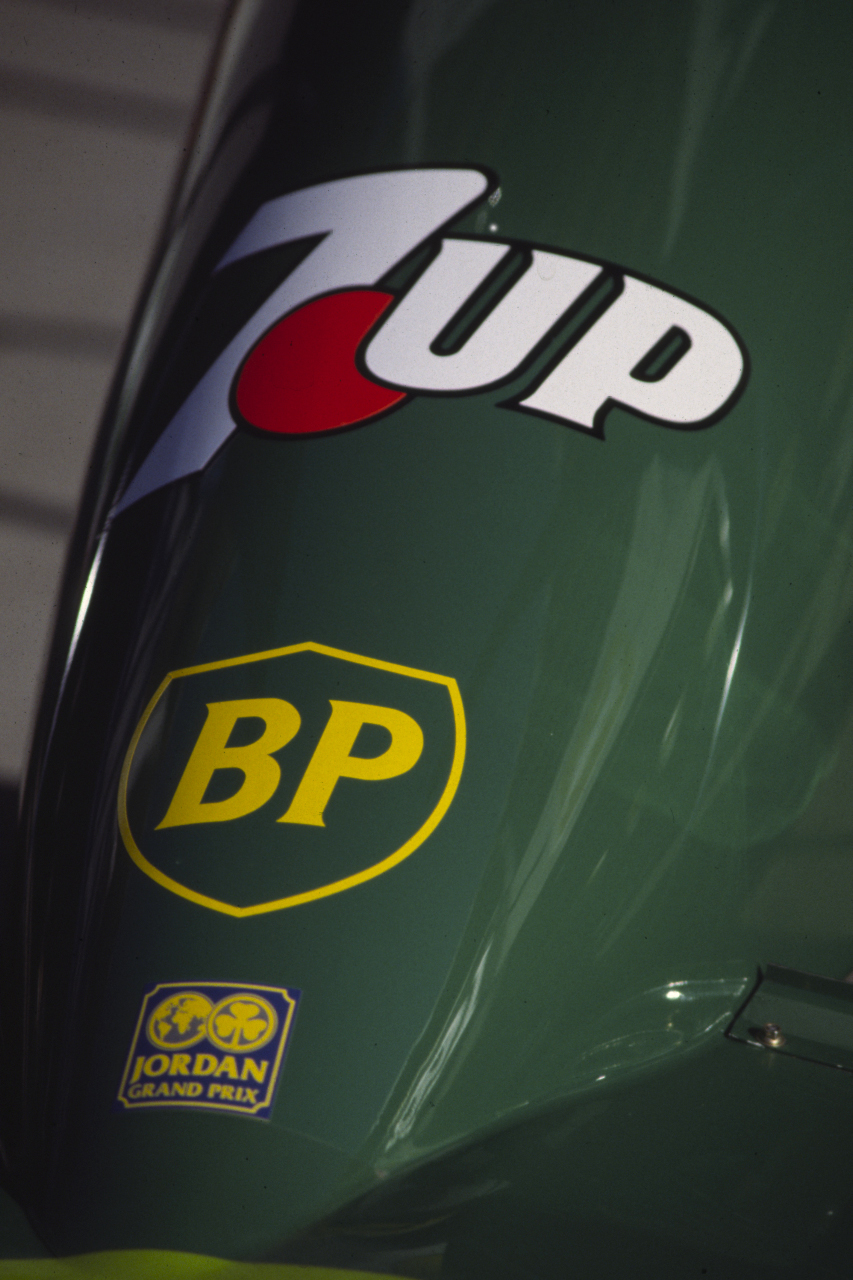 The nose of the 1991 Jordan 191 F1 car.